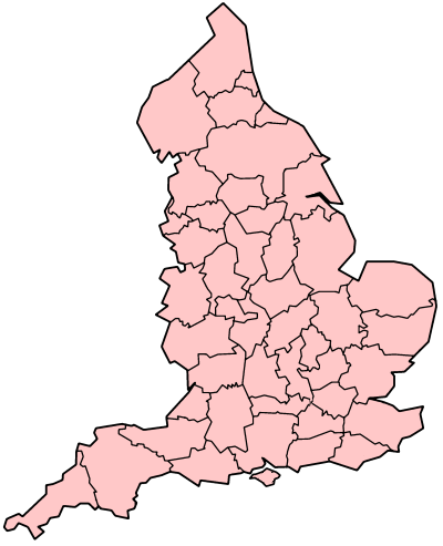 England Counties 1974 Blank